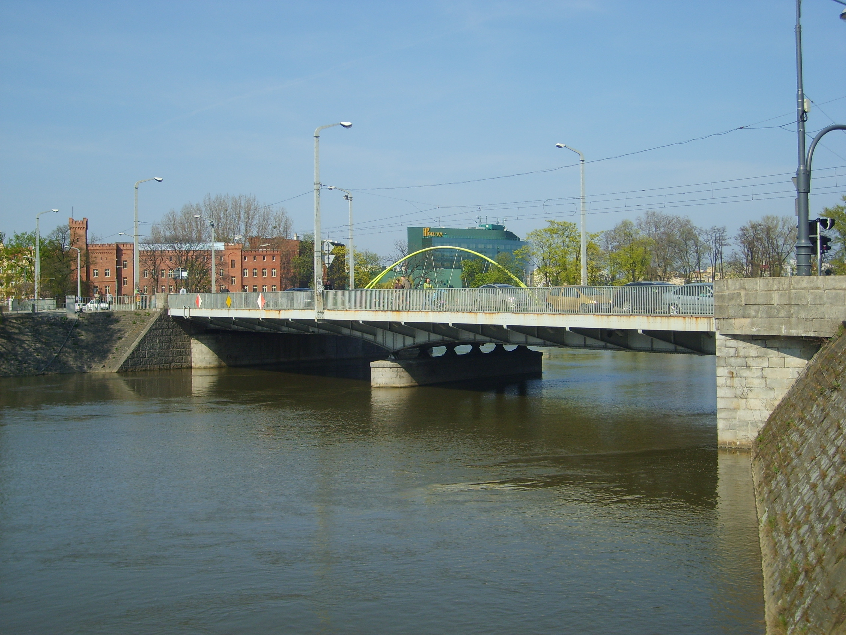 South Uniwersytecki Bridge in Wrocław